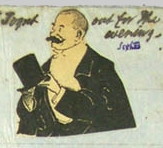 Sketch of Thomas Joynt. Taken from the Burke Manuscript. The caption reads: "T.J. Joynt out for the evening"